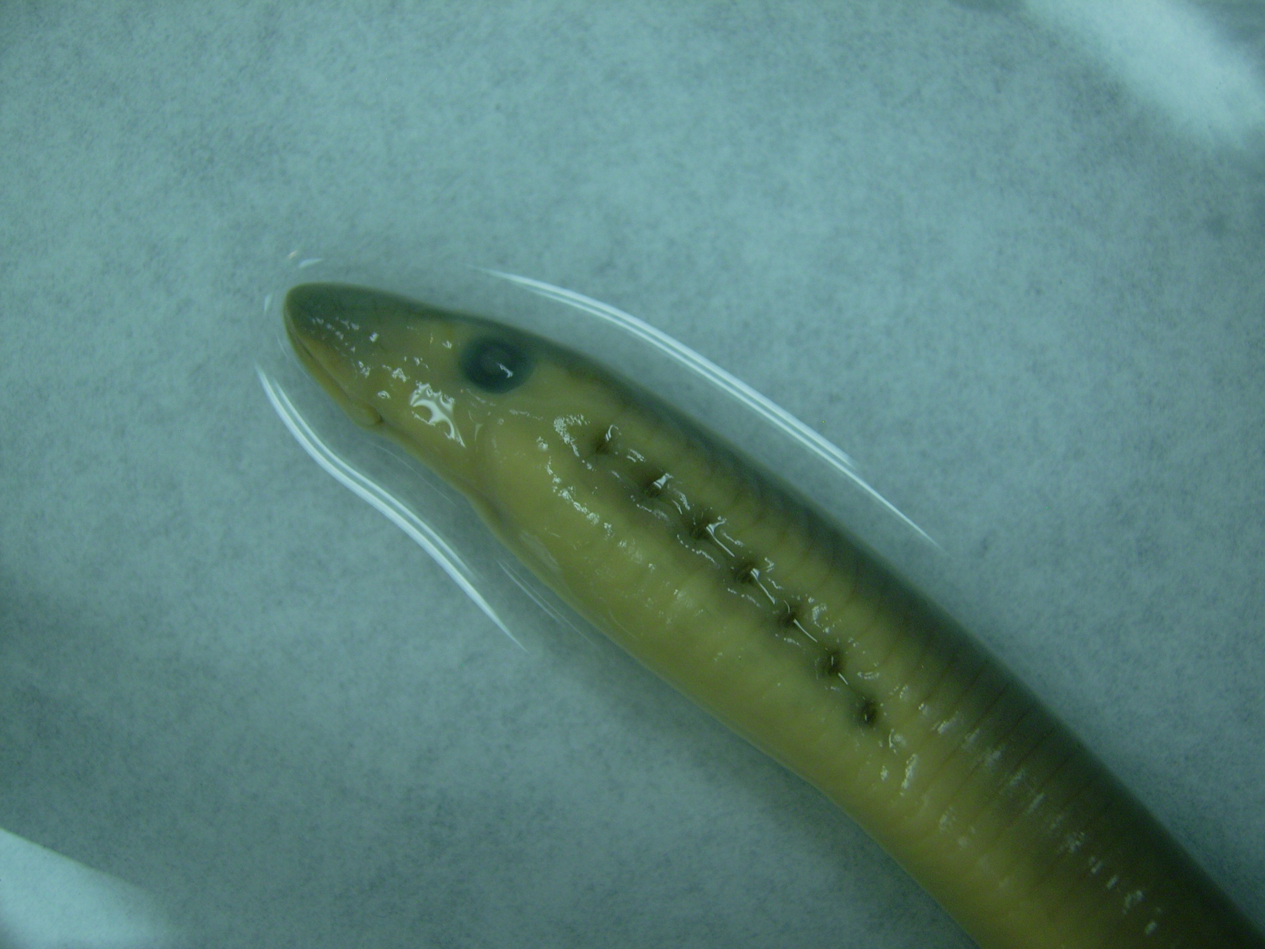 American brook lamprey ammocoete (Lampetra appendix), Sault College, Sault Ste. Marie, Ontario, Canada